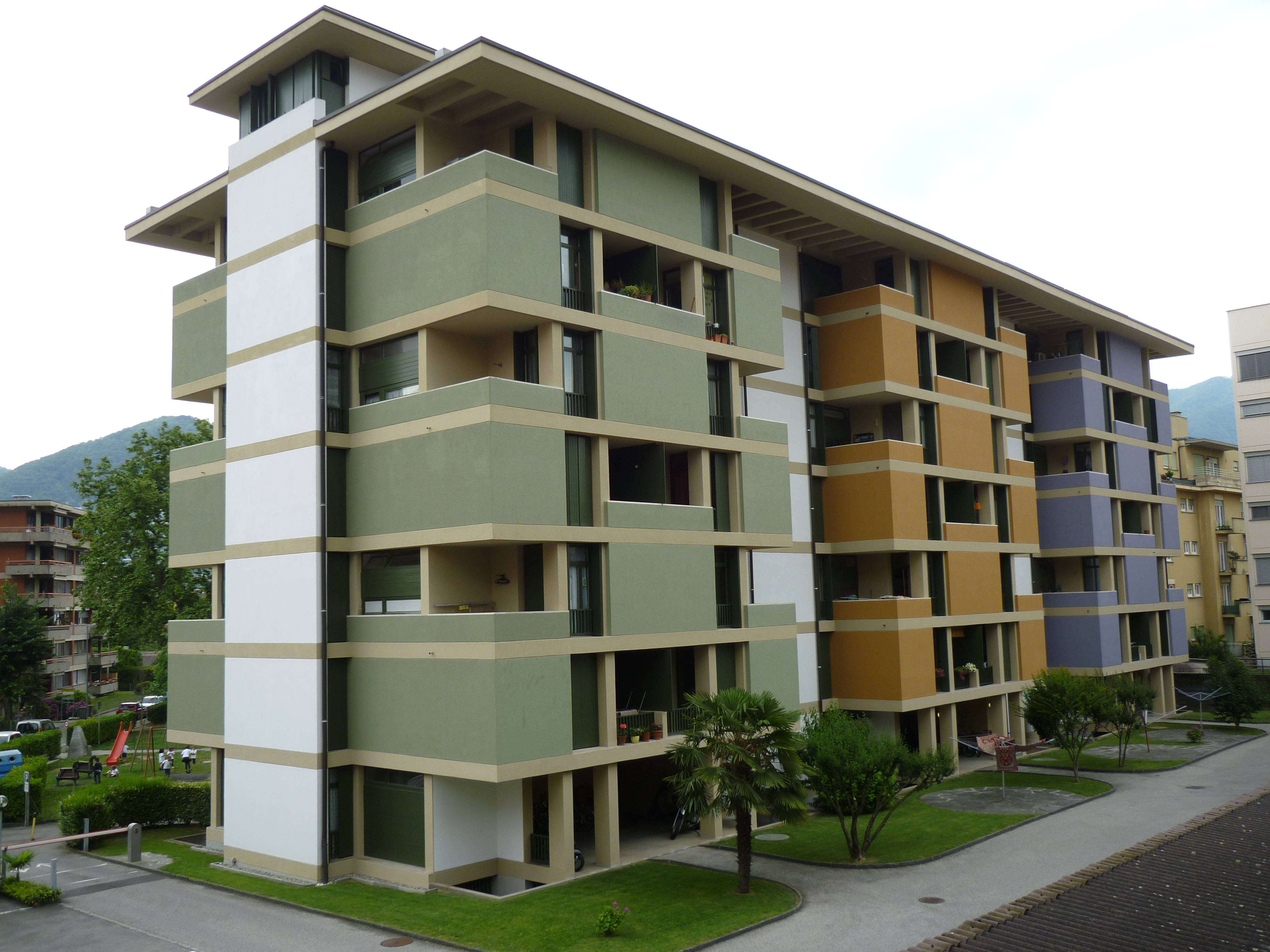 Albairone apartment building, Massagno TI, Switzerland